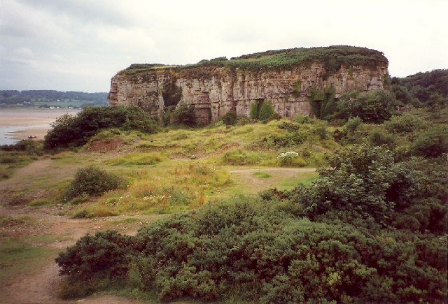 Castell Mawr, Red Wharf Bay, Benllech. Another view of this massive limestone block, the result of limestone quarrying around the site of an Iron-Age fort. The is the view from the north side, in 1993. There was at that time a possible way up on the west side (ie to the right in this view), but coming down again would have been difficult, and the undergrowth on top could well be impenetrable.